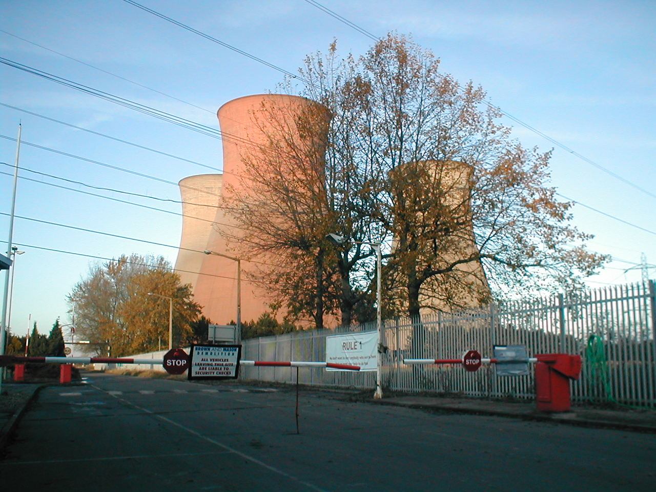 I took this photo of Drakelow Power Station's cooling towers on 27th November 2005.